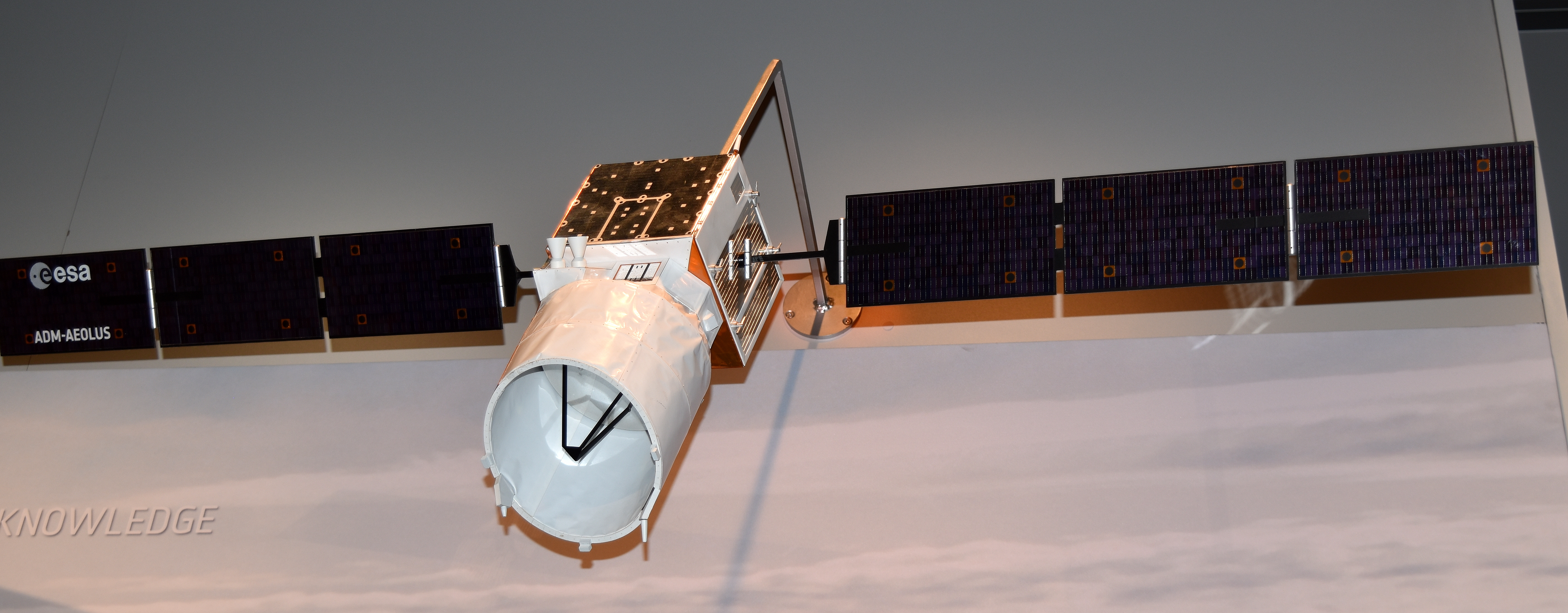 Scale model of ADM-Aeolus Displayed during Paris Air Show 2015